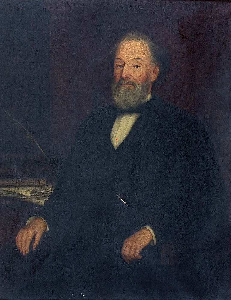 Courtesy of the Brown University Portrait Collection, Brown University, Providence, R.I.